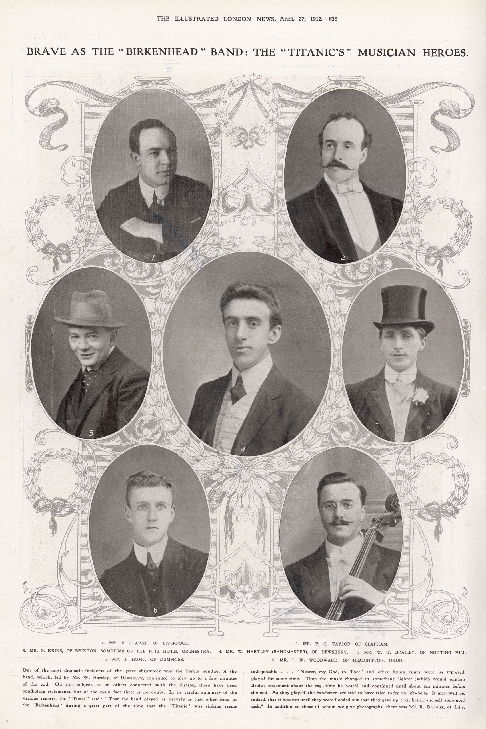 Titanic Orchestra